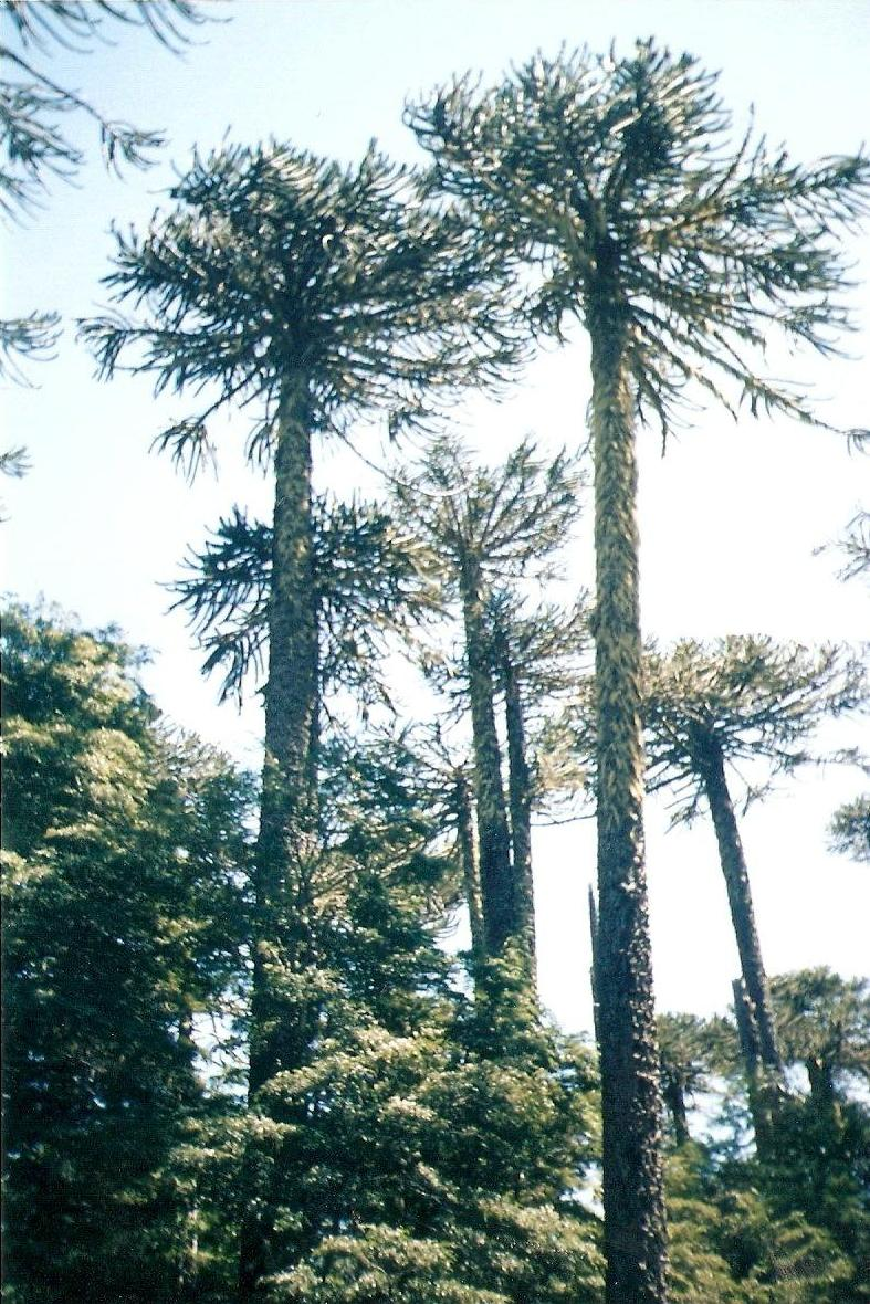 Nahuelbuta range. Araucaria araucana (Molina)Koch